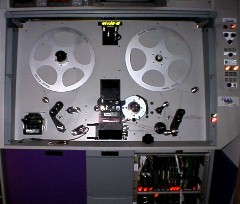 Cintel URSA Diamond My own work